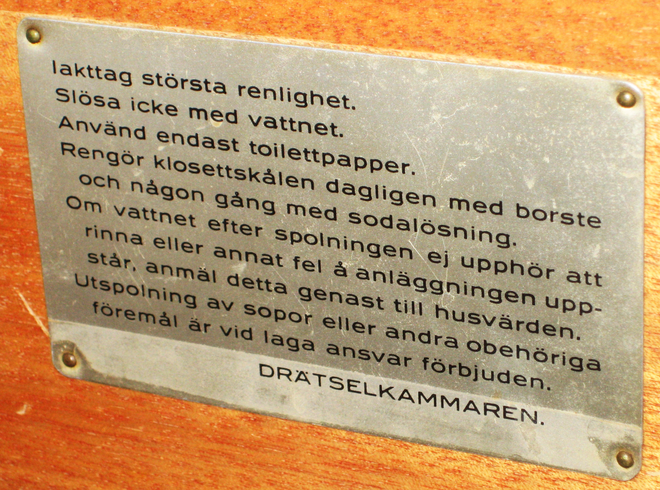 Toilet instructions from the 50ies. Drätselkammaren, Lund, Sweden. Photo taken 090116 by the uploader.